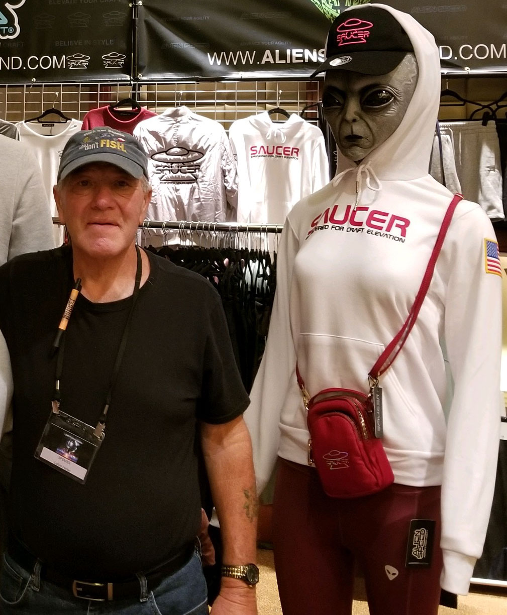 Calvin Parker at The 2019 International UFO Congress in Phoenix, Arizona.